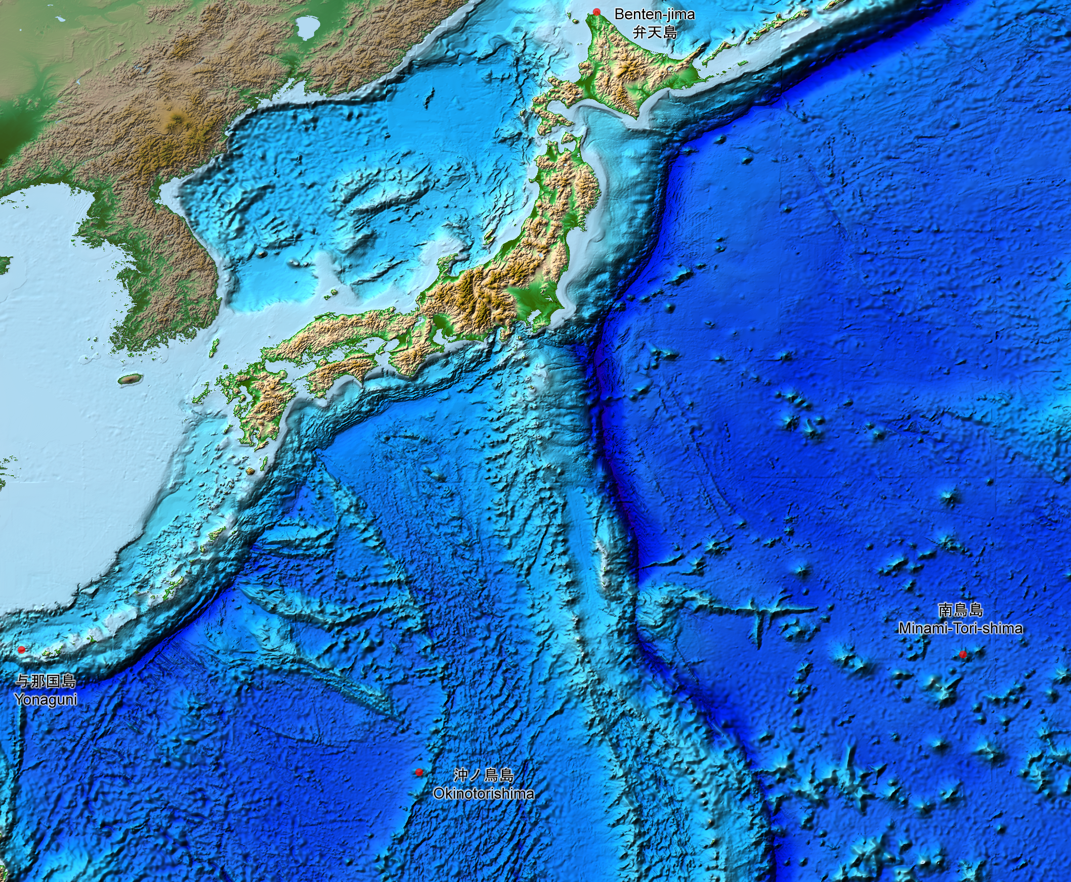 This is a relief map of the land and the seabed of Japan. It shows the surface and underwater terrain of the Japanese archipelago. It includes all the Japanese islands such as Minami-Tori-Shima, Benten-jima, Okinotorishima and Yonaguni.